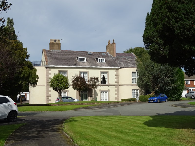 Sutton Hall, Ellesmere Port